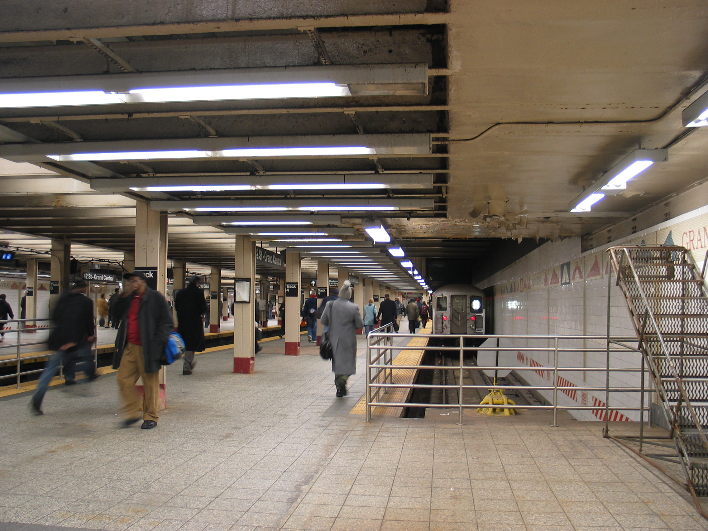 Times Square bound shuttle departing from Grand Central station